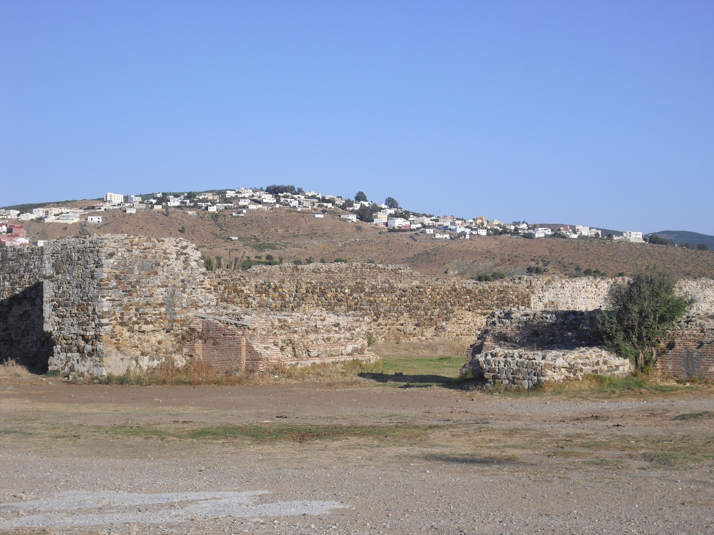 Kesbat Ghaylane, Tangier.